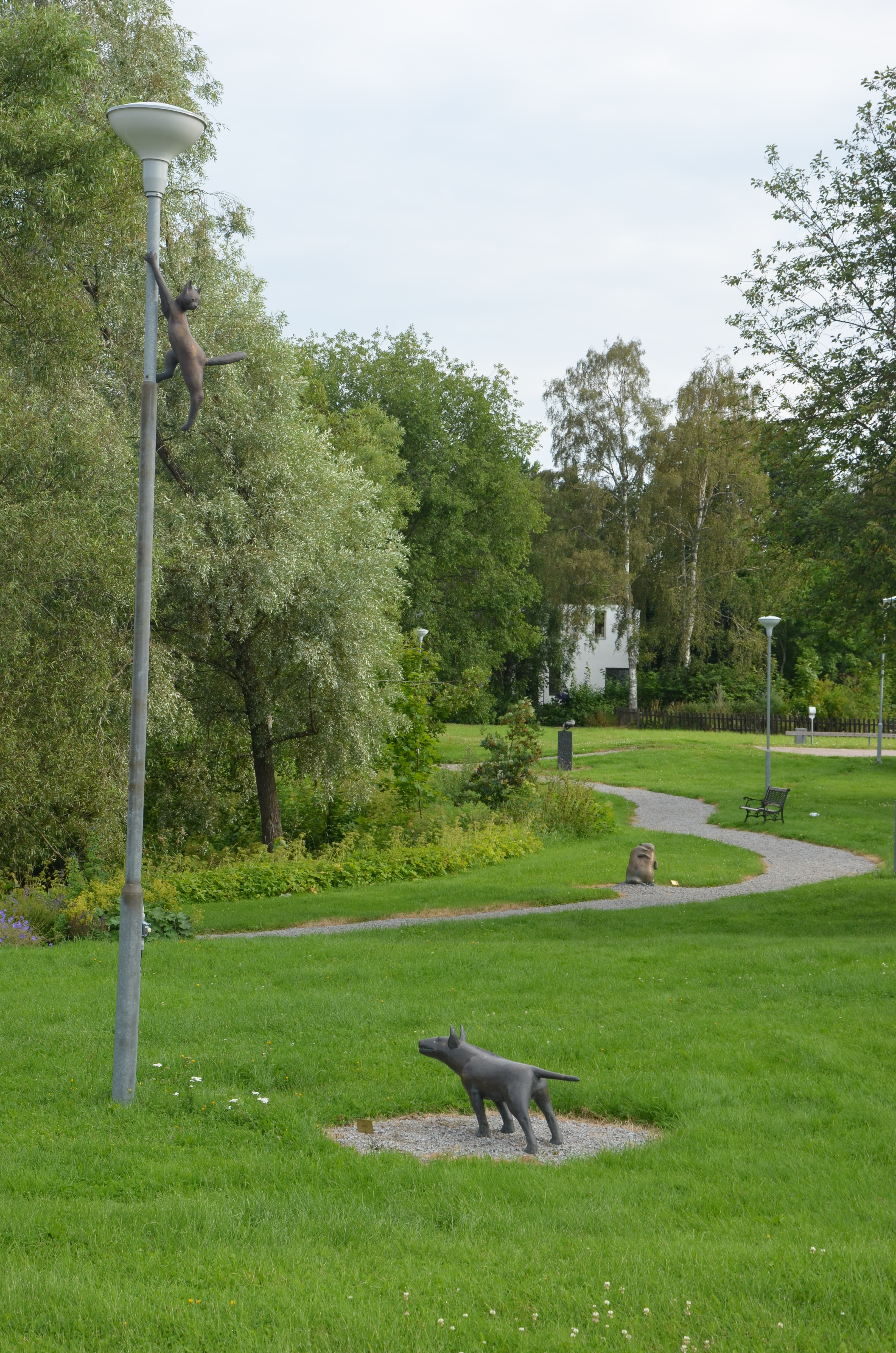 Sonja Pettersson´s Medusen, Sculpture Park "Tant Fridas stig", Heby, Sweden